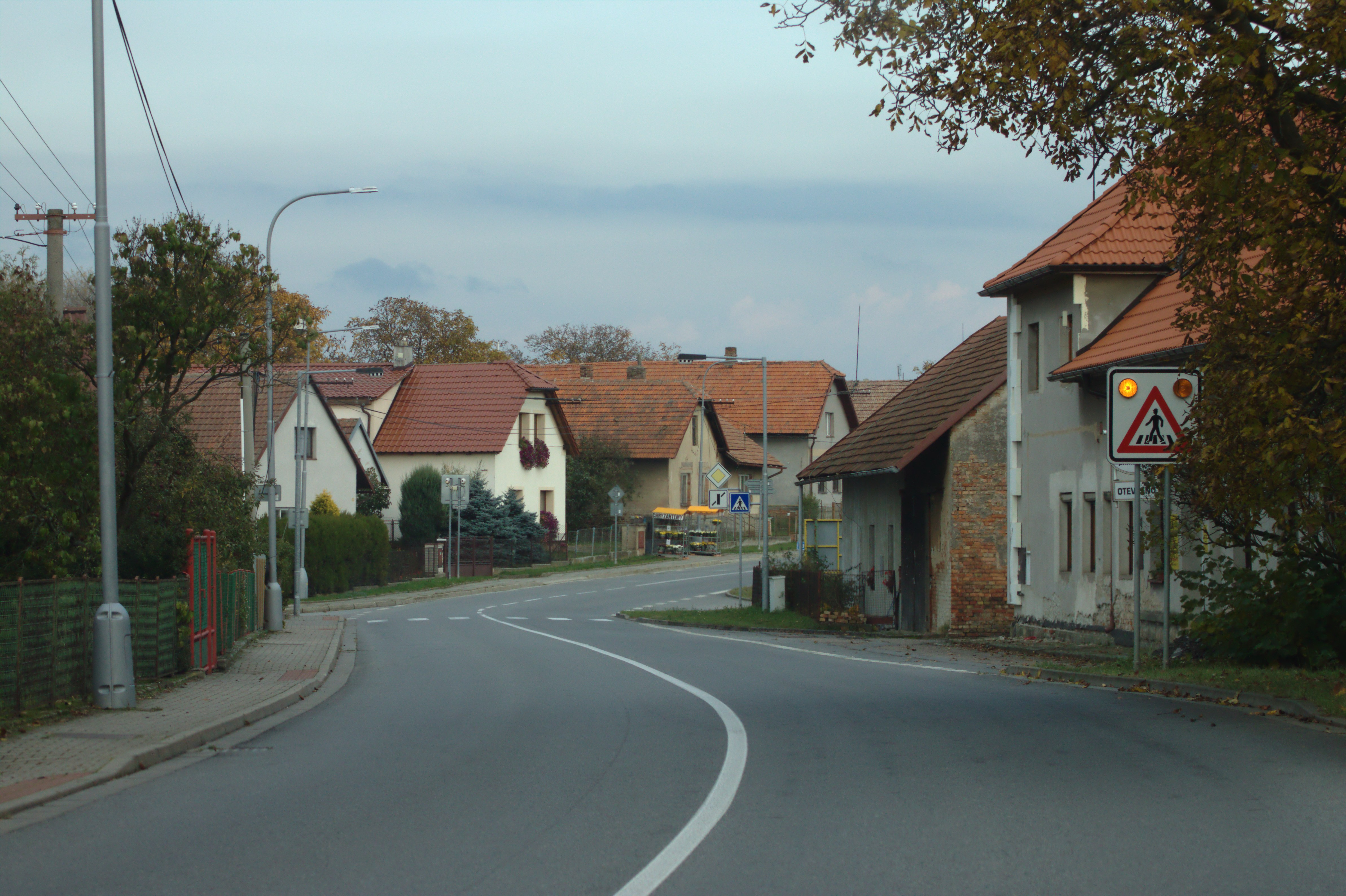 Main road in the village of Časy, Pardubice Region, CZ